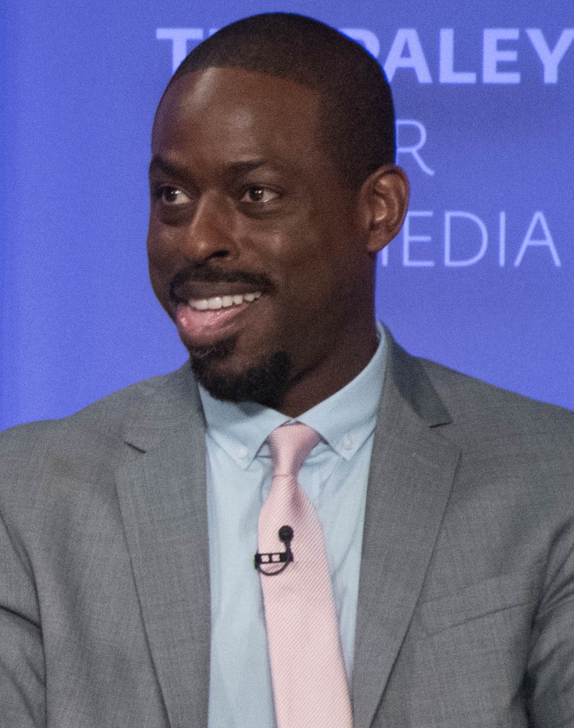 Actor Sterling K. Brown promoting This is Us at the 2017 paleyfest